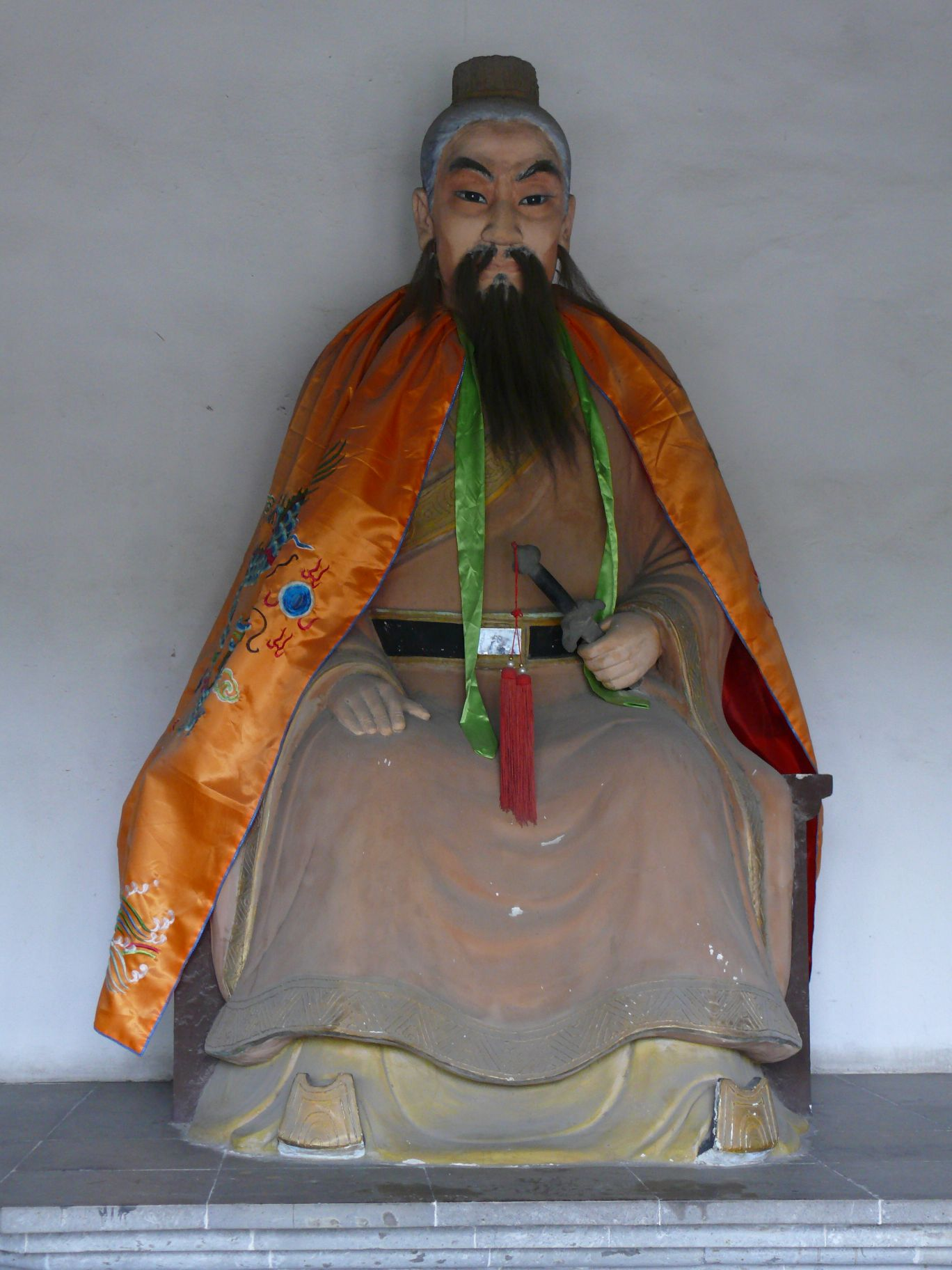 Statue of Wu Zixu at Pan Men (Suzhou, Jiangsu, China).